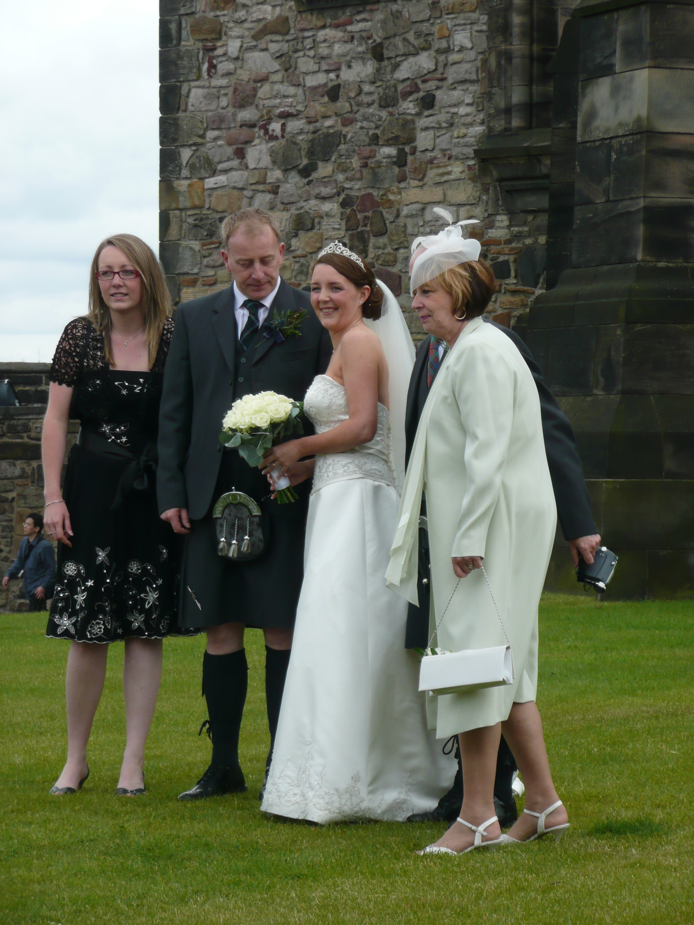 Photographs from Edinburgh, Scotland